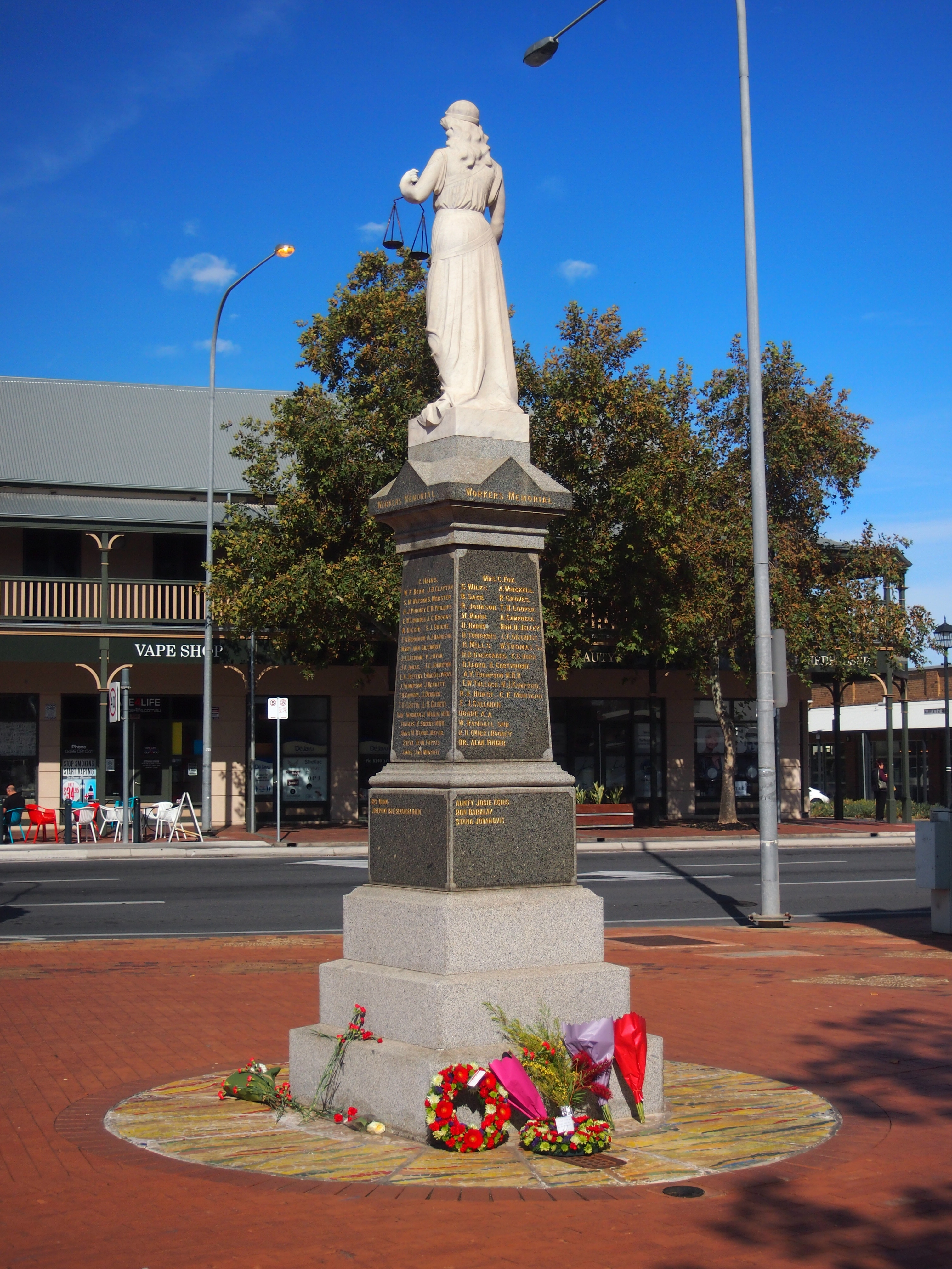 The Port Adelaide Workers Memorial, after the wreath-laying ceremony on 6 May 2018.Original file name = P5063084.JPG